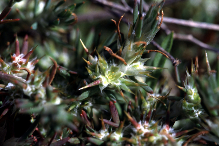 Cardionema ramosissimum — Sandcarpet. At the Humboldt Bay National Wildlife Refuge, Humboldt County, coastal Northern California.